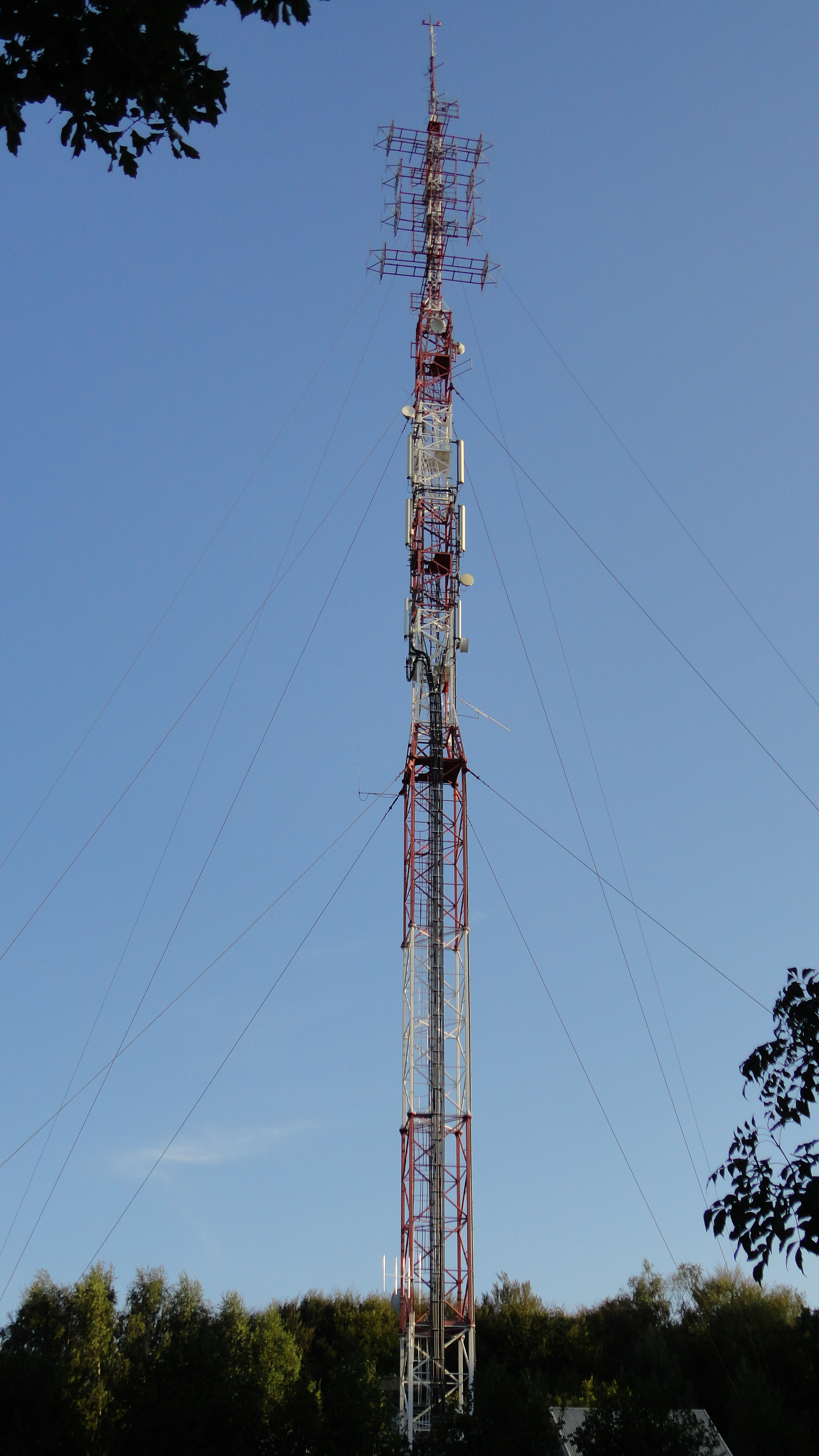 Radio tower in Feliksowka